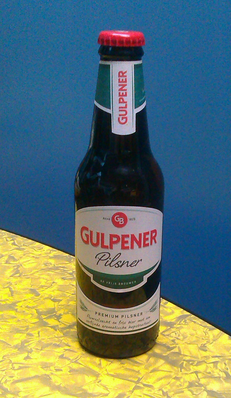 The new label on Gulpener Pilsner.